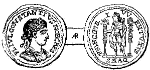 738 woodcuts illustrating the work A Dictionary of Roman Coins, Republican and Imperial (1889). To identify a coin please look at the filename to identify a page number, and check the Dictionary on numiswiki